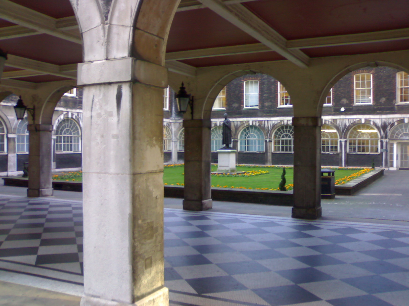 The Colonnade, Guy's Campus